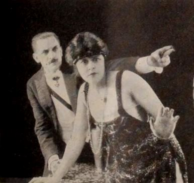 Still from the American drama film The Firebrand (1918) with an unidentified actor and Virginia Pearson, on page 21 of the May 25, 1918 Exhibitors Herald.